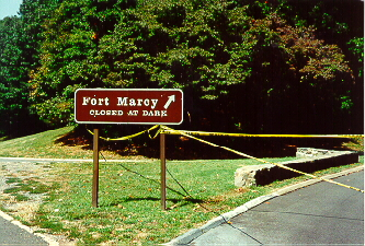 Entrance to Fort Marcy with crime scene tape